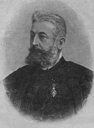 Gusztáv Alkér